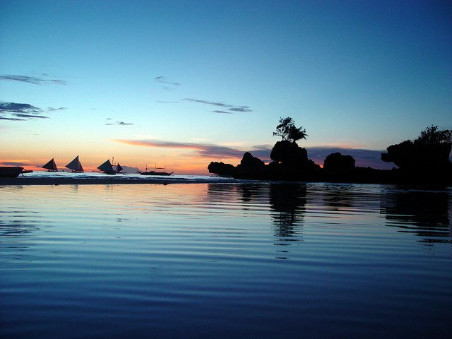 Blue Waters of Boracay, Philippines at dusk.